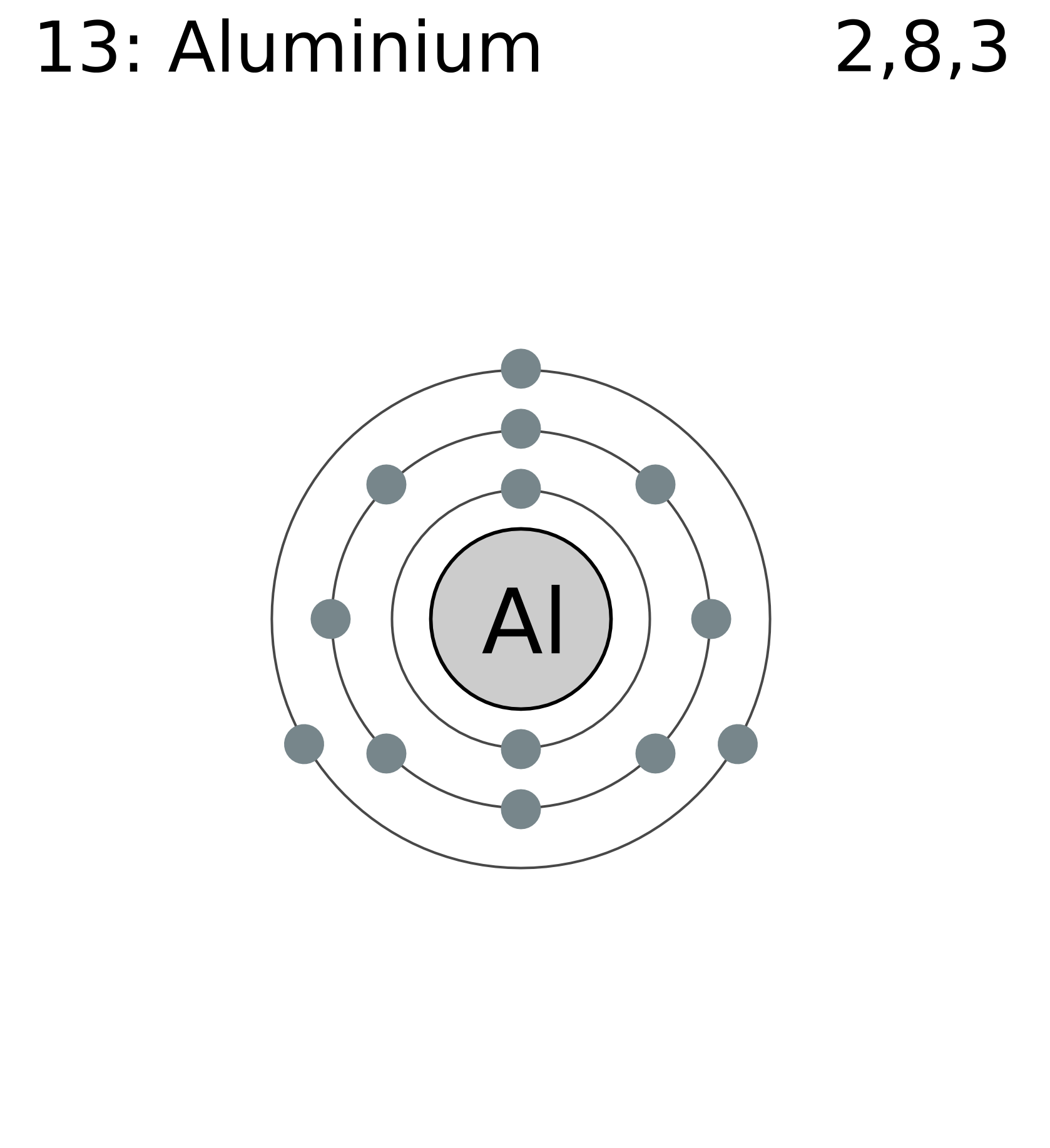 Electron shell diagram for Aluminium, the 13th element in the periodic table of elements.